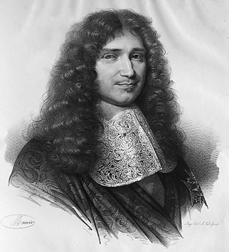 Jean-Baptiste Colbert (1619 – 1683)